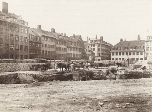 Urban renewal site before the establishment of Christian IXs Gade in Copenhagen, Denmark. Watching from Store Regnegade in the direction of Møntergade.